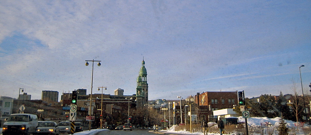 View from Atwater Street of the Sud-Ouest burrough in Montréal.